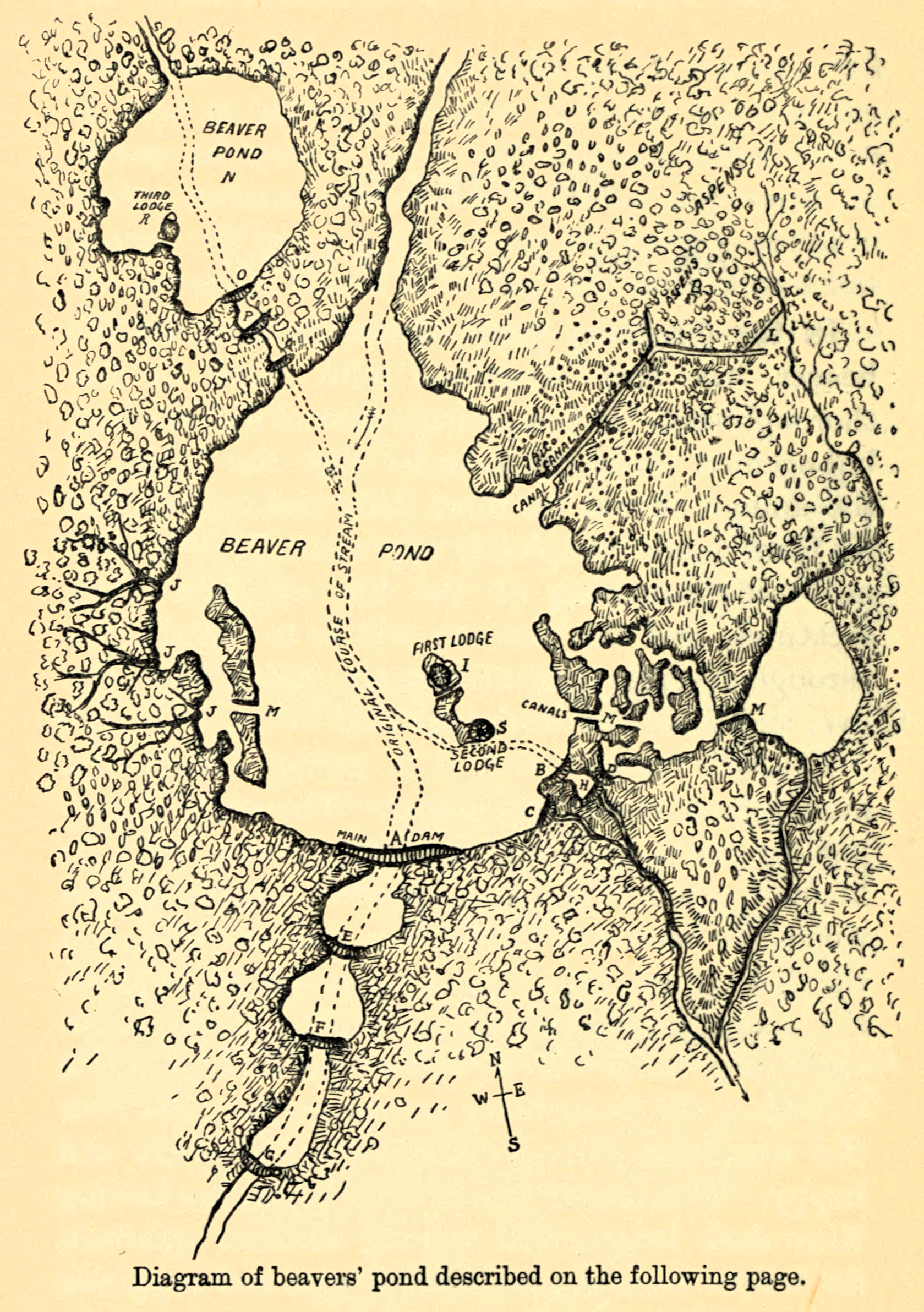 Illustration from the book The romance of the beaver; being the history of the beaver in the western hemisphere by Dugmore, Arthur Radclyffe, 1914.